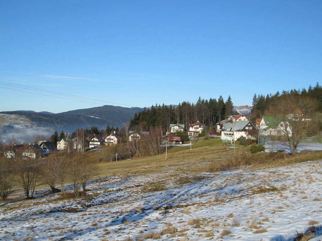 Panorama of Benecko (Czech republic)